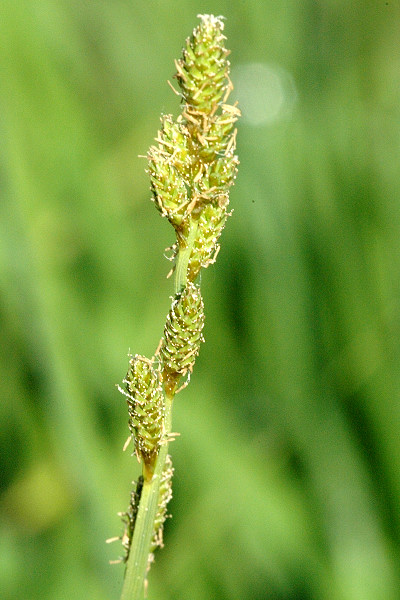 Carex curta from Commanster, Belgian High Ardennes .